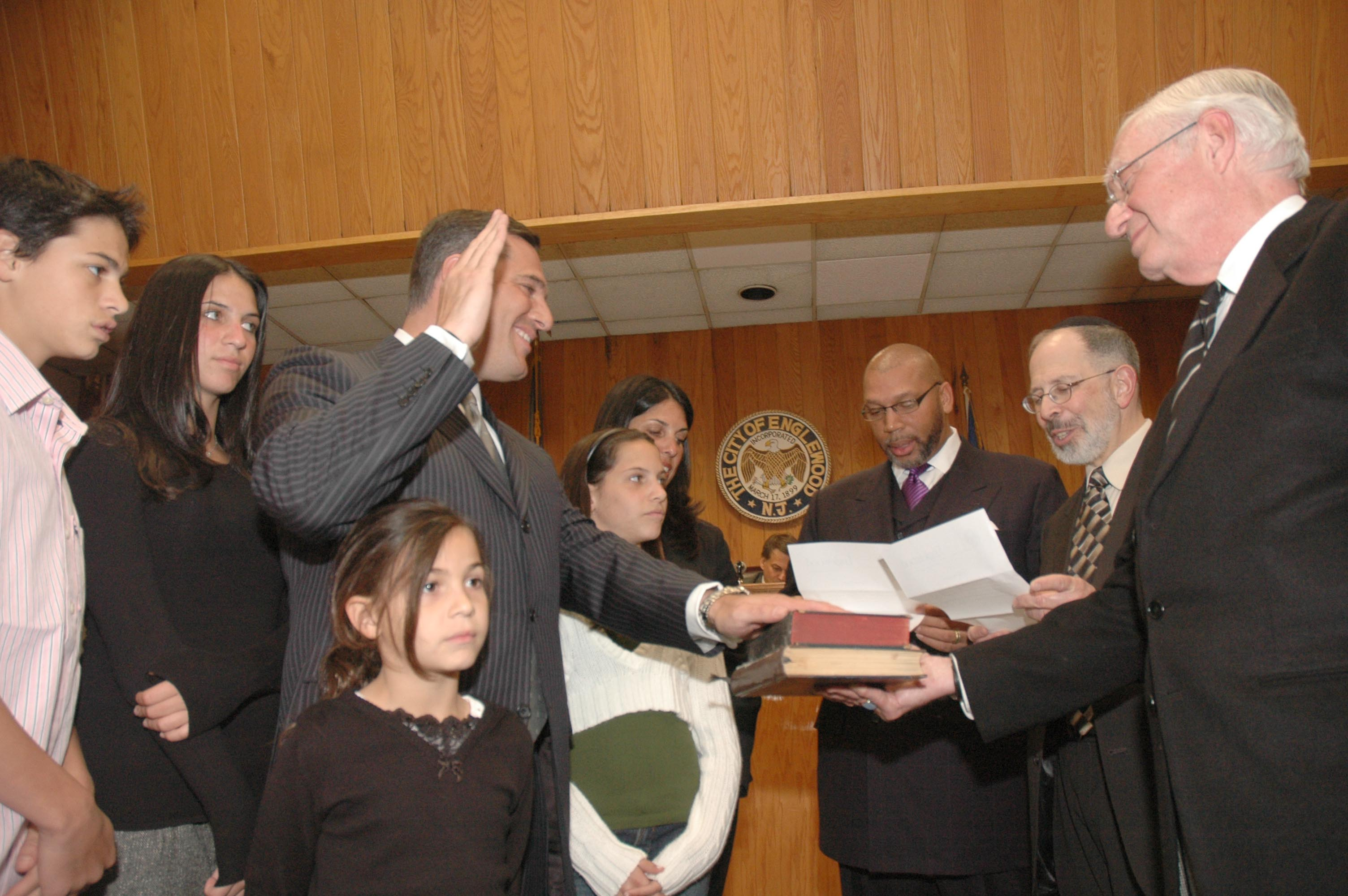 This is a picture of Michael Wildes being sworn into his second term as mayor of Englewood, January 2, 2007.